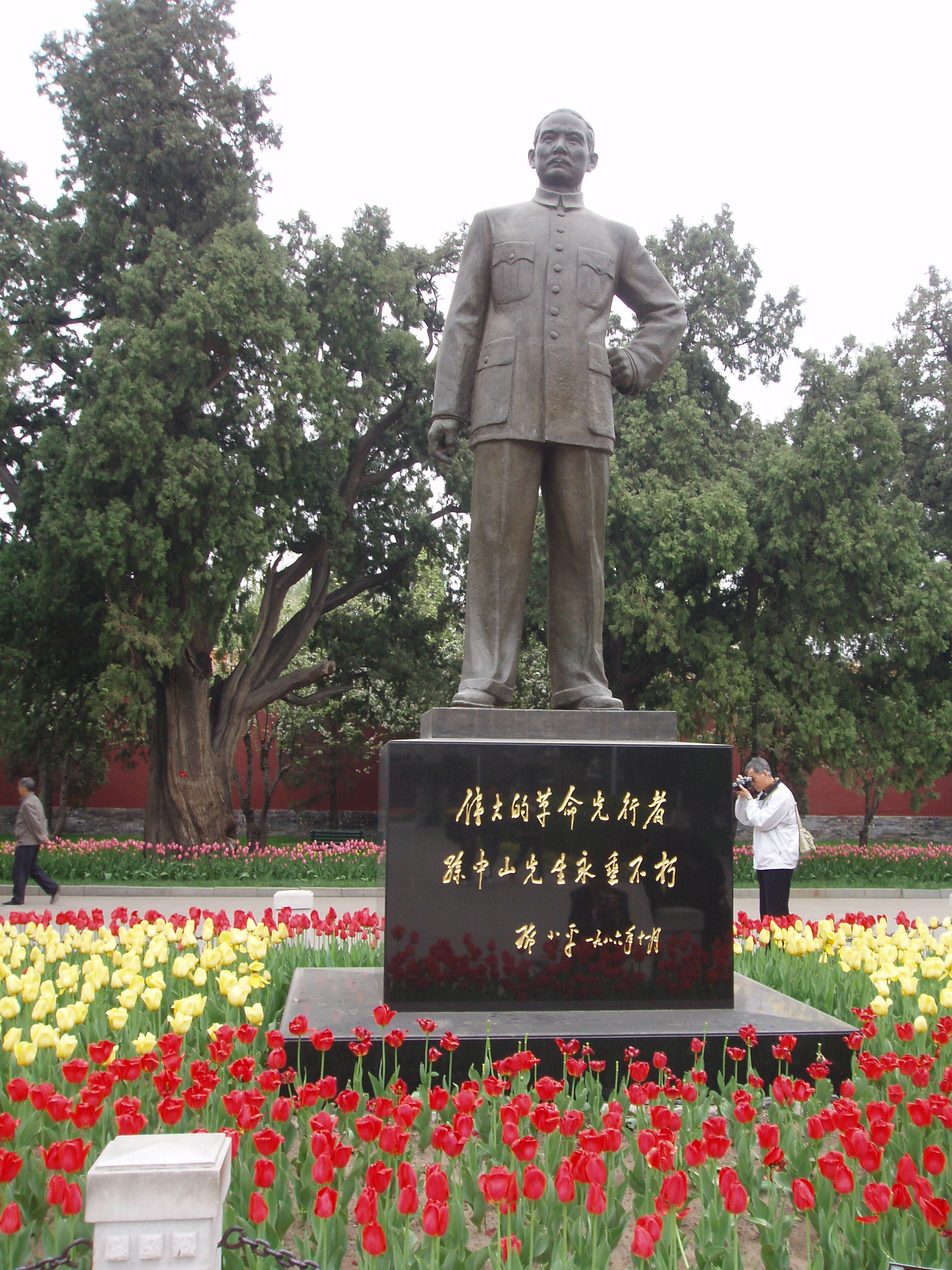 The statue of Sun Yat-sen in Beijing, with inscription by Deng Xiaoping